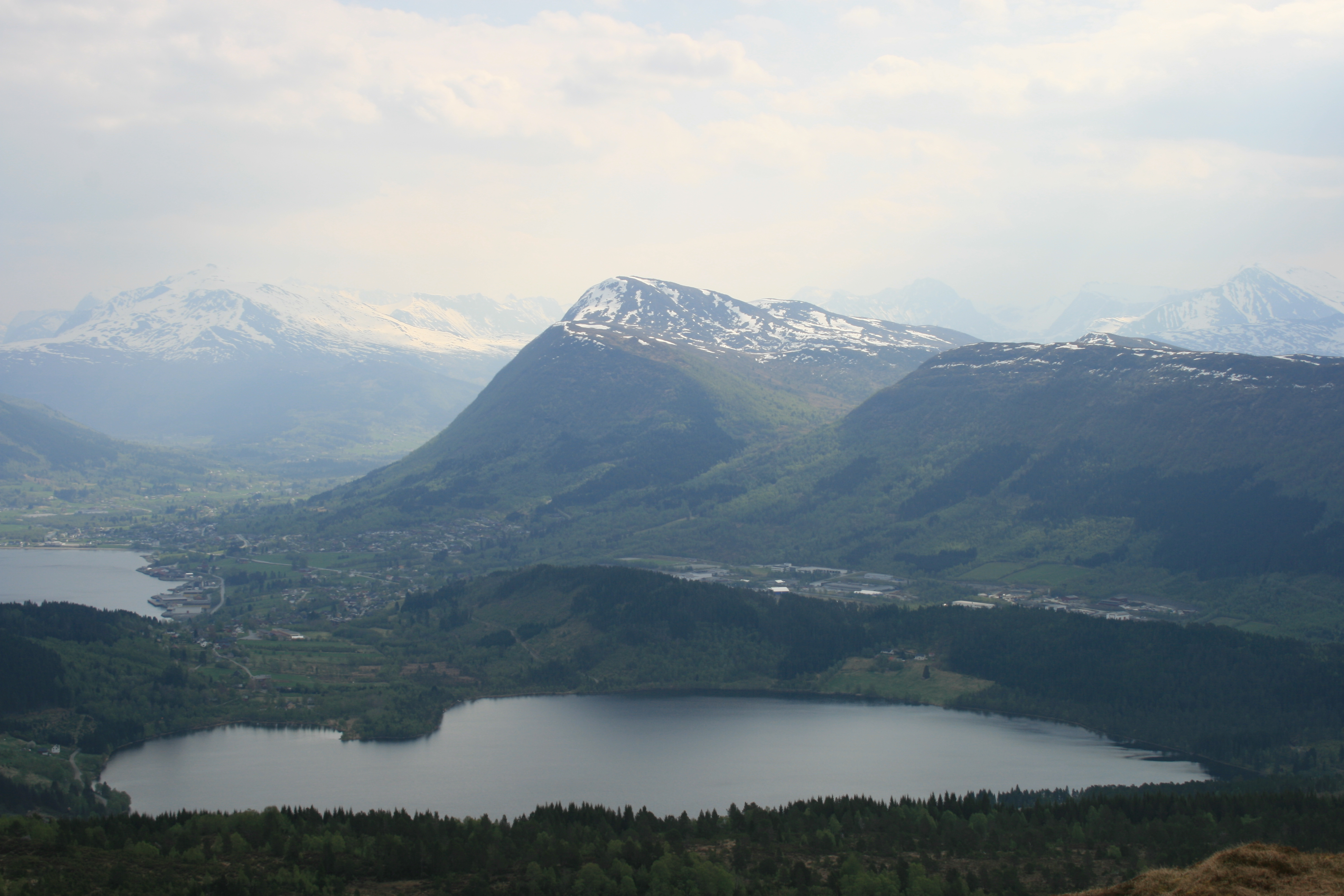 Hovdevatnet, Ørsta and Volda, Norway, seen from Helgehornet